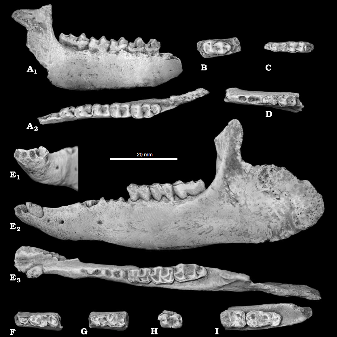 Lower dentition of tapiromorph perissodactyls Gandheralophus minor gen. et sp. nov. (A–D) and Gandheralophus robustus gen. et sp. nov. (E–I) from the early Eocene upper Ghazij Formation in Pakistan. A. GSP−UM 6770, holotype, right p3–m3 in labial (A1) and occlusal (A2) views. B. GSP−UM 5355, right m3 in occlusal view. C. GSP−UM 4719, left dp4–m1 in occlusal view. D. GSP−UM 5445, left p3–4 and alveoli of p1–2 in occlusal view. E. GSP−UM 6768, holotype, left m1–3 and alveoli of right i1–left p4 in anterior (E1), labial (E2) and occlusal (E3) views. F. GSP−UM 5360, left p3–4 and roots of p2 in occlusal view. G. GSP−UM 5446, left p3–4 in occlusal view. H. GSP−UM 6275, right m1 in occlusal view. I. GSP−UM 4717, right m2–3 in occlusal view. Note the difference in size and in reduction of the anterior dentition between both species.